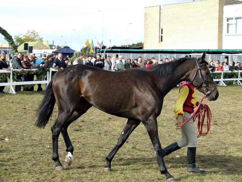 Thoroughbred. Lithuania.